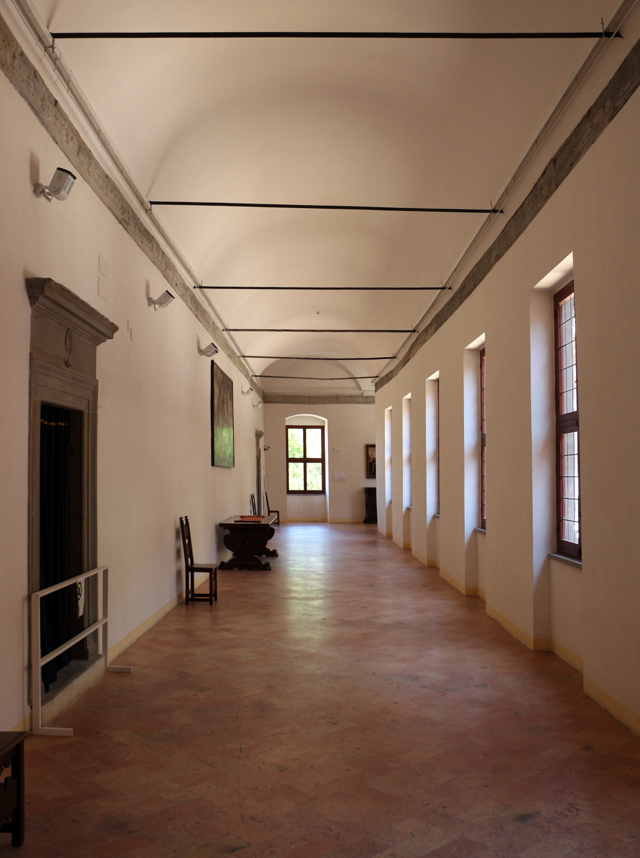 Palazzo Ducale (Gubbio)